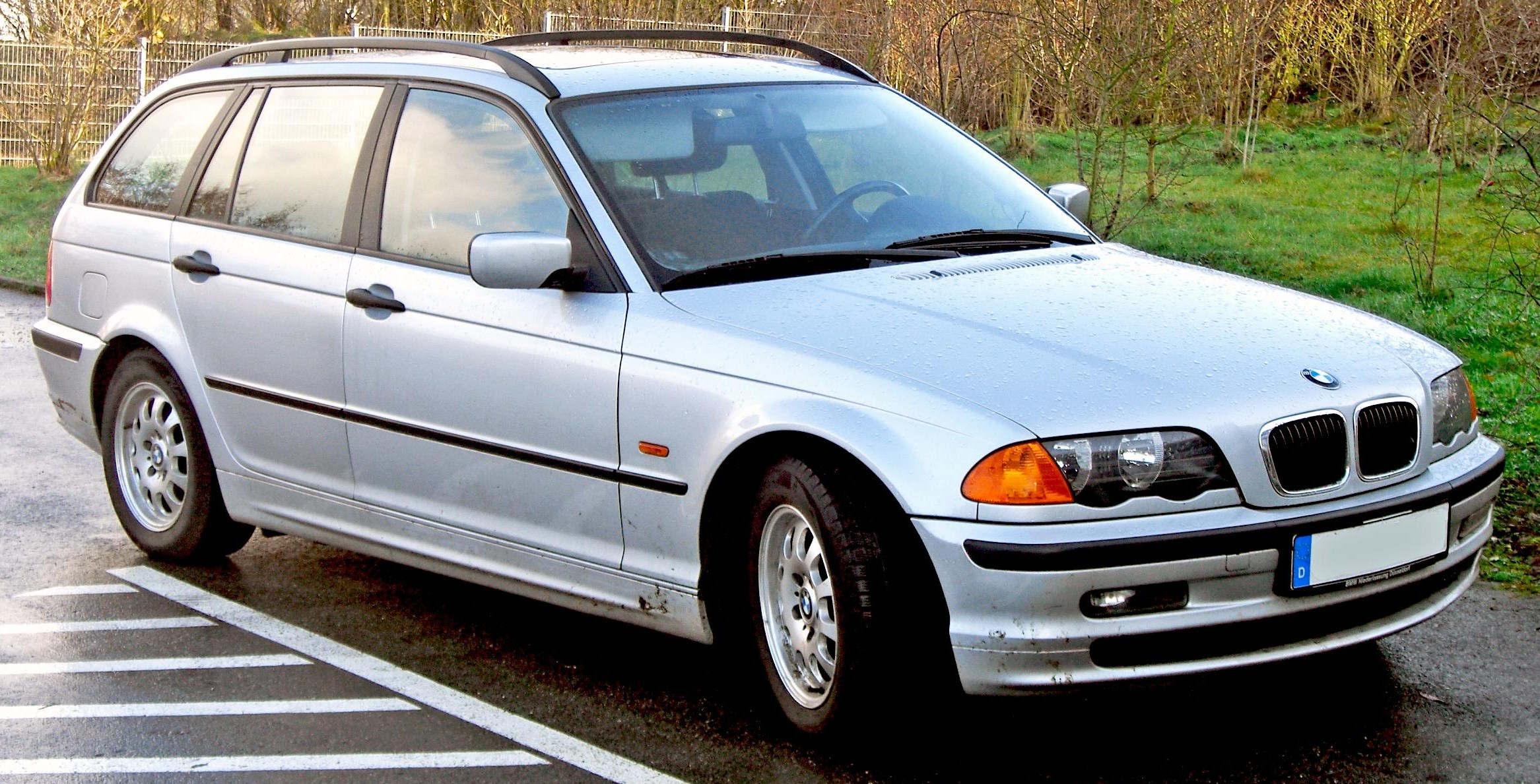 Description: BMW 320d Touring Source: Matthias Other Version(s)